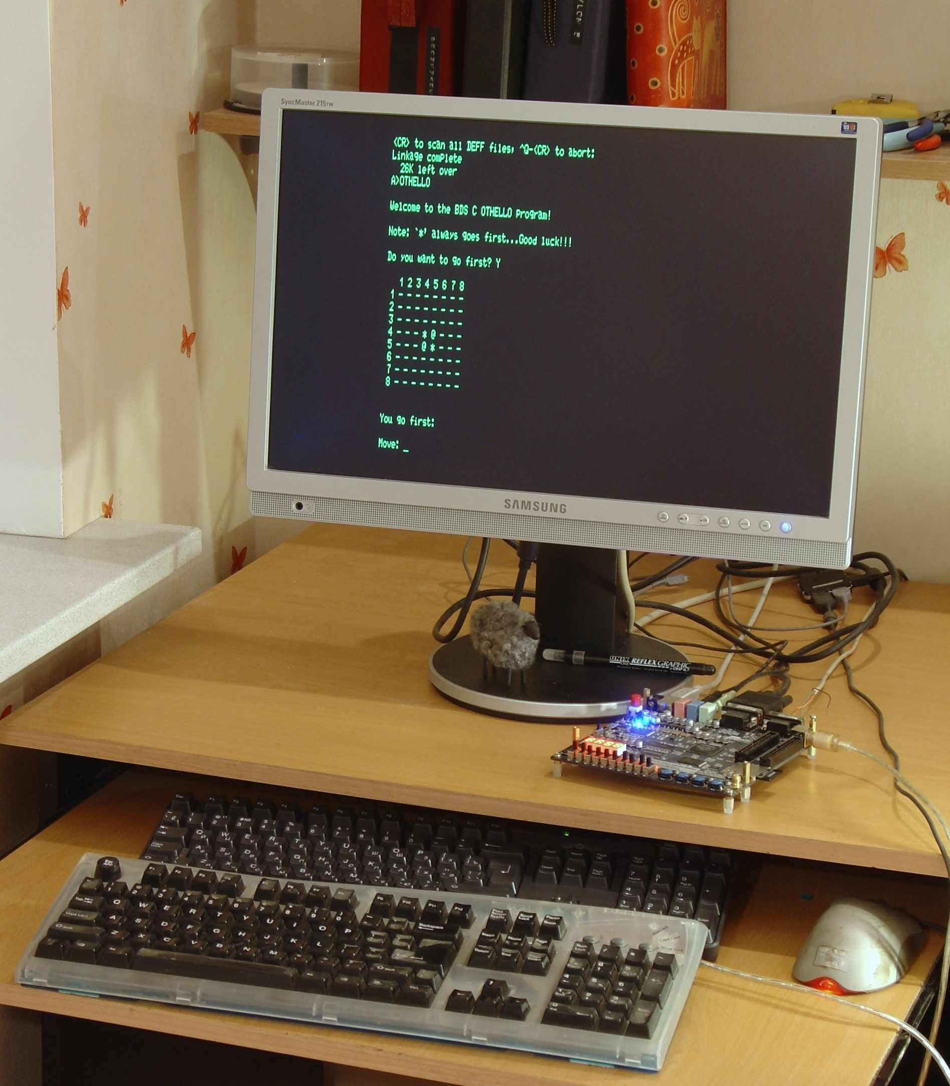 Freshly compiled OTHELLO.C Once upon a time in prehistoric days of personal computing, Robert Halstead of MIT wrote a game of Othello in C programming language. In late 1978, Leor Zolman really wanted to play that game on his micro but couldn't, he had to write a C compiler first. The compiler he wrote became known as BDS C -- one of the most widely known and influential C compilers of the 8-bit era. In the fall of 2007 I really wanted to run a few old games and demos for an awesome but mostly forgotten computer called Vector-06C and, disappointed by the state of existing software emulators, created my own hardware implementation. Reverse engineered without a complete circuit diagram, with scarce documentation, tested by software written for the original computer it has fancy graphics and it plays music. But I find its role as a historical link the most fascinating. Recreated in 2008 for want of a demo, using a compiler written in 1979 for want of an Othello game, running the game from mid-70's on a 21st century FPGA, here it is. Looking not very impressive but with a kind heart, this is an entirely free and open source project. It utilizes approximately 30% of EP2C20 FPGA on Altera DE1 development board, fully recreating a 8080-based computer that was popular in the former Soviet Union in late 80's to mid-90's. It's worth noting that unlike many other Soviet-era designs this computer was truly original, borrowing very little from any other computer of the time. Other projects created for, or ported to the DE1 kit include at least a couple of ZX Spectrum clones, FPGApple: an Apple ][ recreation, Minimig: the Amiga clone, One-Chip MSX, and new projects keep emerging. vector06cc project URL